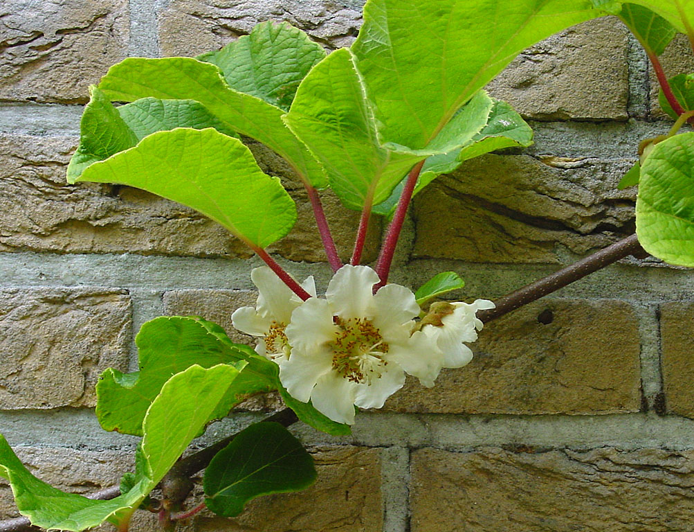 kiwifruit